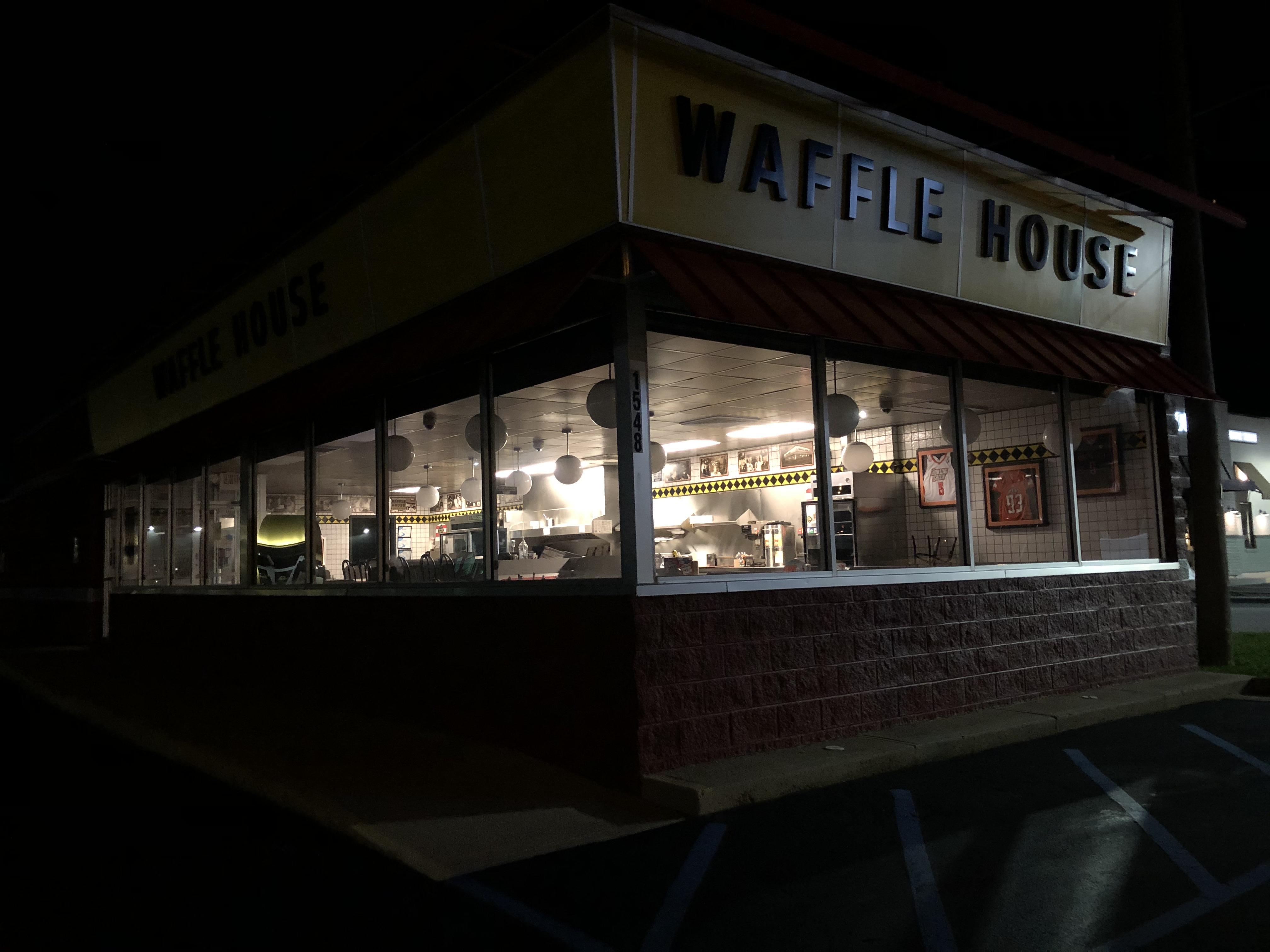 A Waffle House in Bowling Green, Ohio that was closed in the morning for COVID-19.